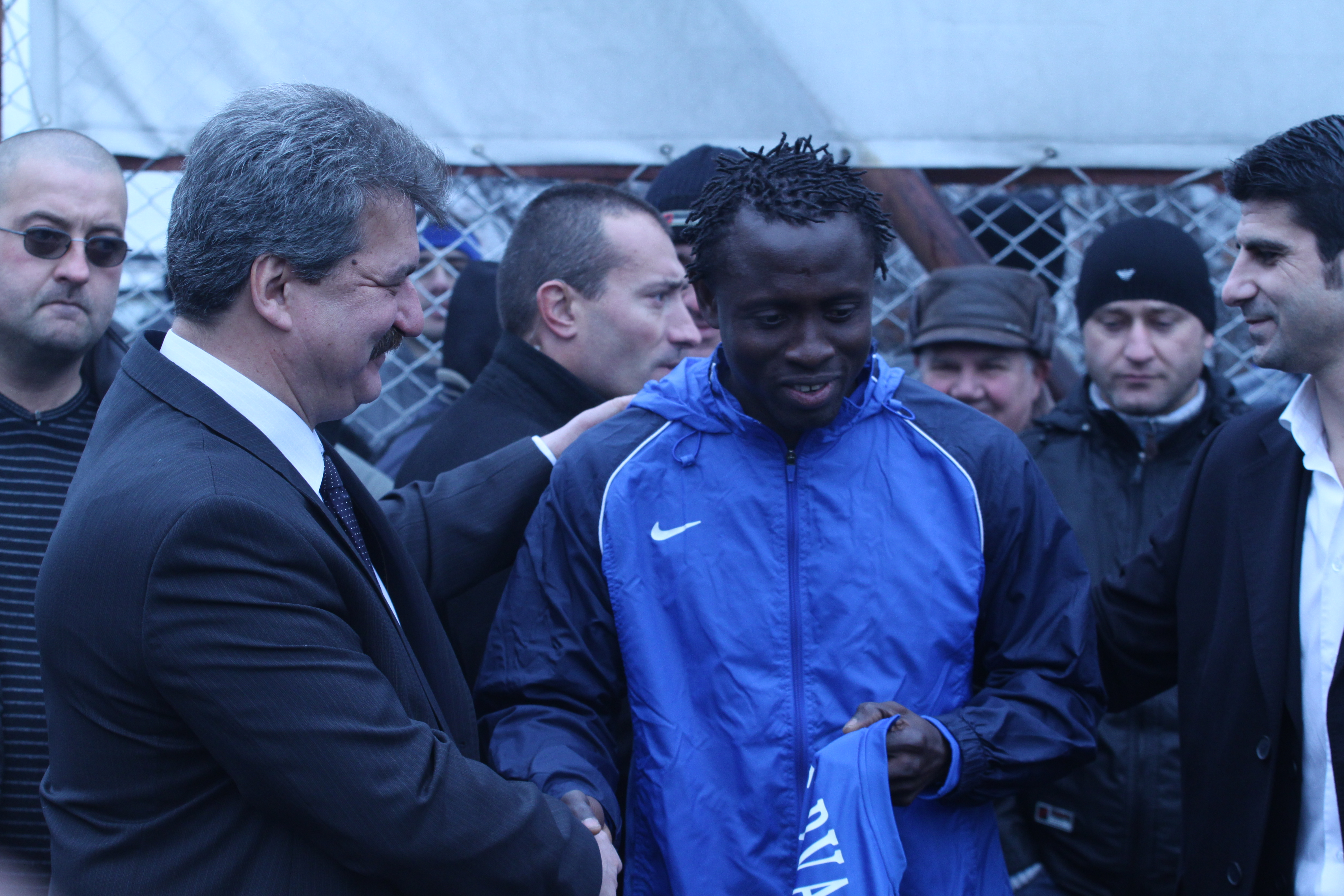 Basile Salomon Pereira de Carvalho (born 31 October 1981 in Zinguinchor) is a Senegalese footballer. He plays for Levski Sofia in Bulgarian A PFG.